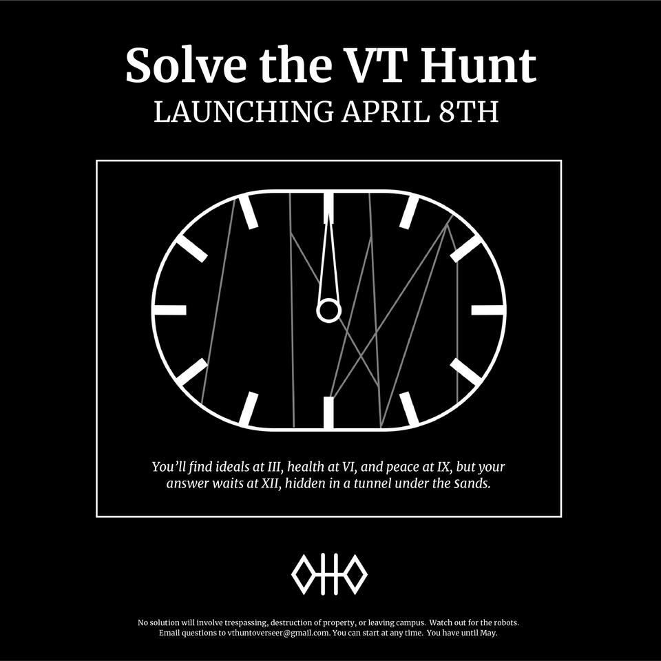 Announcement flier puzzle released for the 2019 VT Hunt.